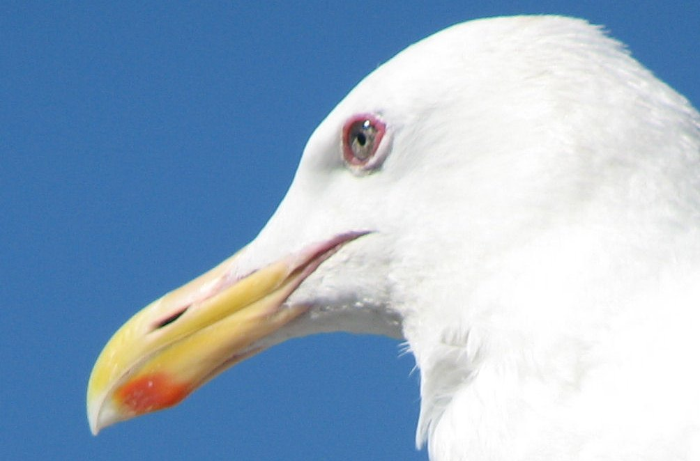 Western Gull face, crop of original image I took